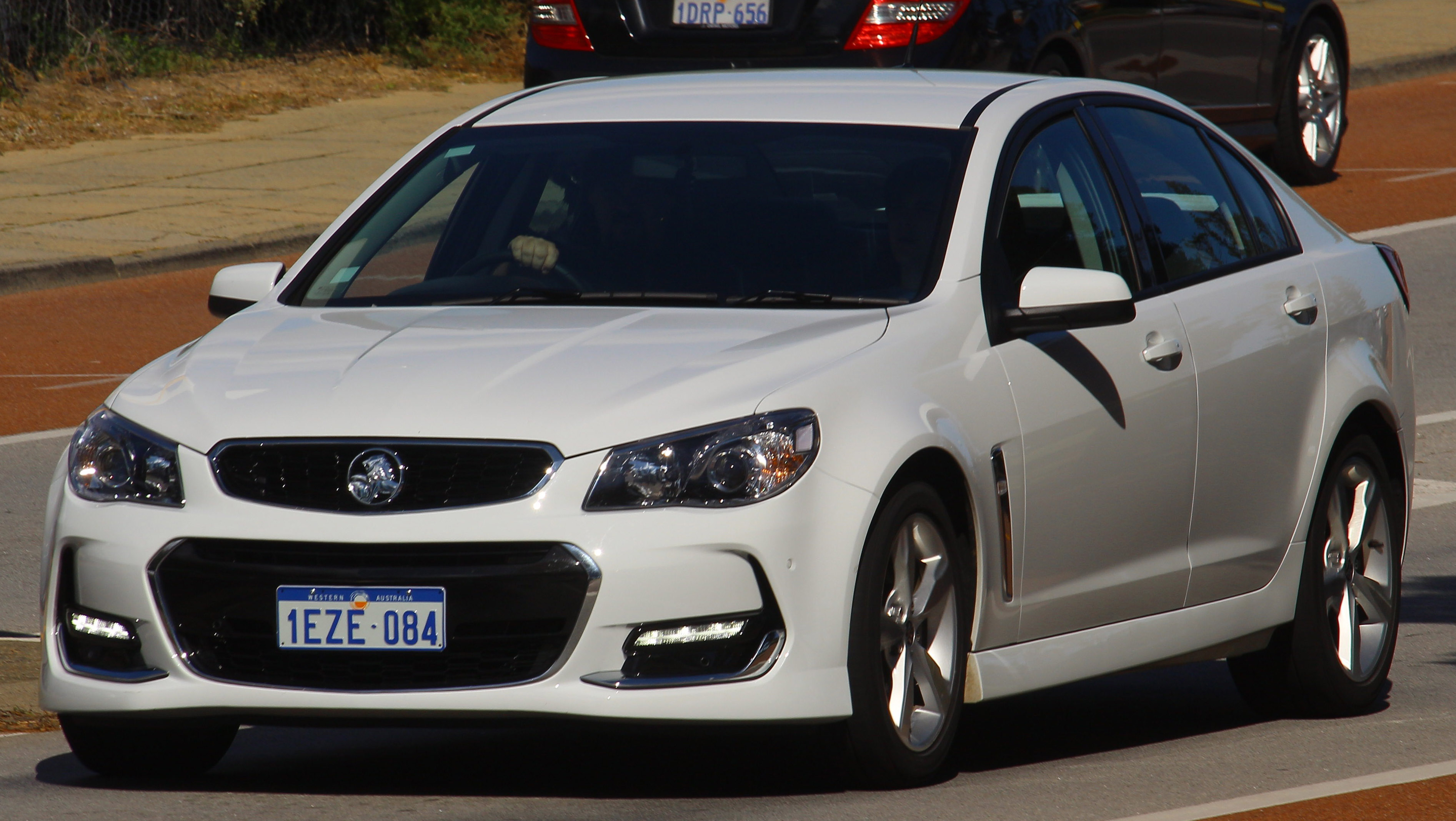 2016 Holden Commodore (VF II) SV6 sedan. Photographed in Cottesloe, Western Australia Australia.